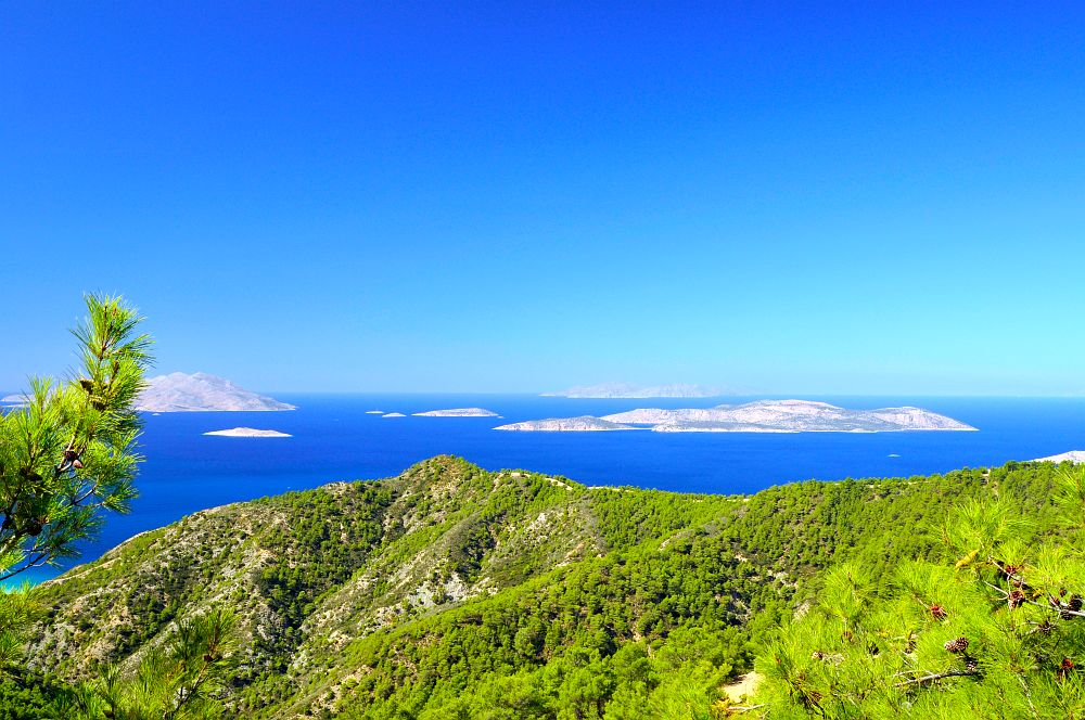 Alimia and surrounding islands, Dodecanese, Greece